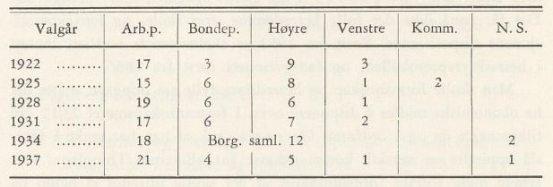 Results from municipality elections in Elverum from 1922 unto 1937